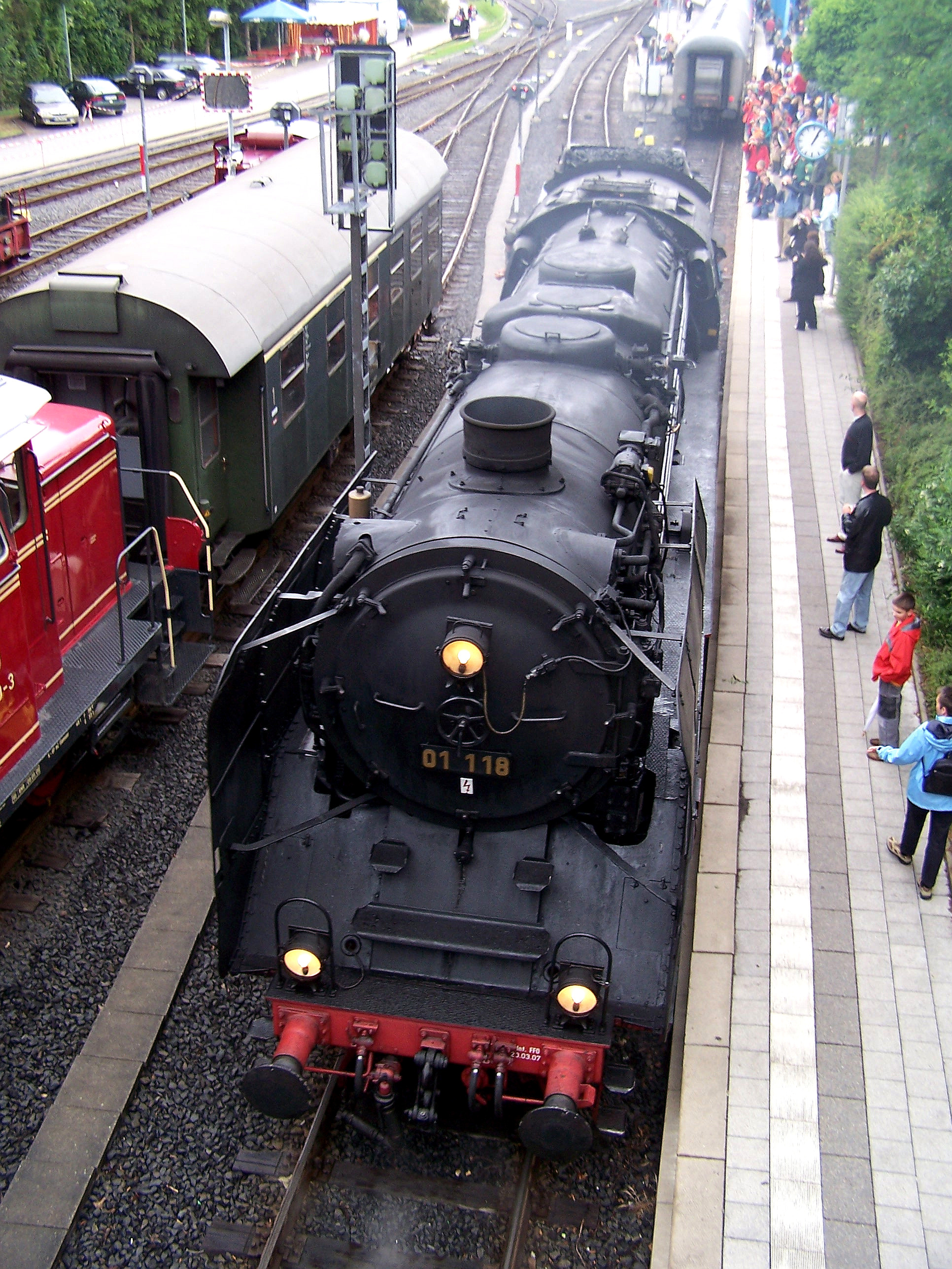 Front view from above of the DRG Class 01 No 118 of the HEF in Königstein im Taunus